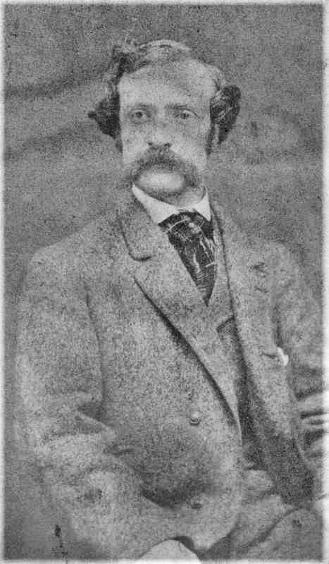 Portrait of William Waud, taken from the Thomas Butler Gunn Diaries: Volume 15, page 149, February 8, 1861